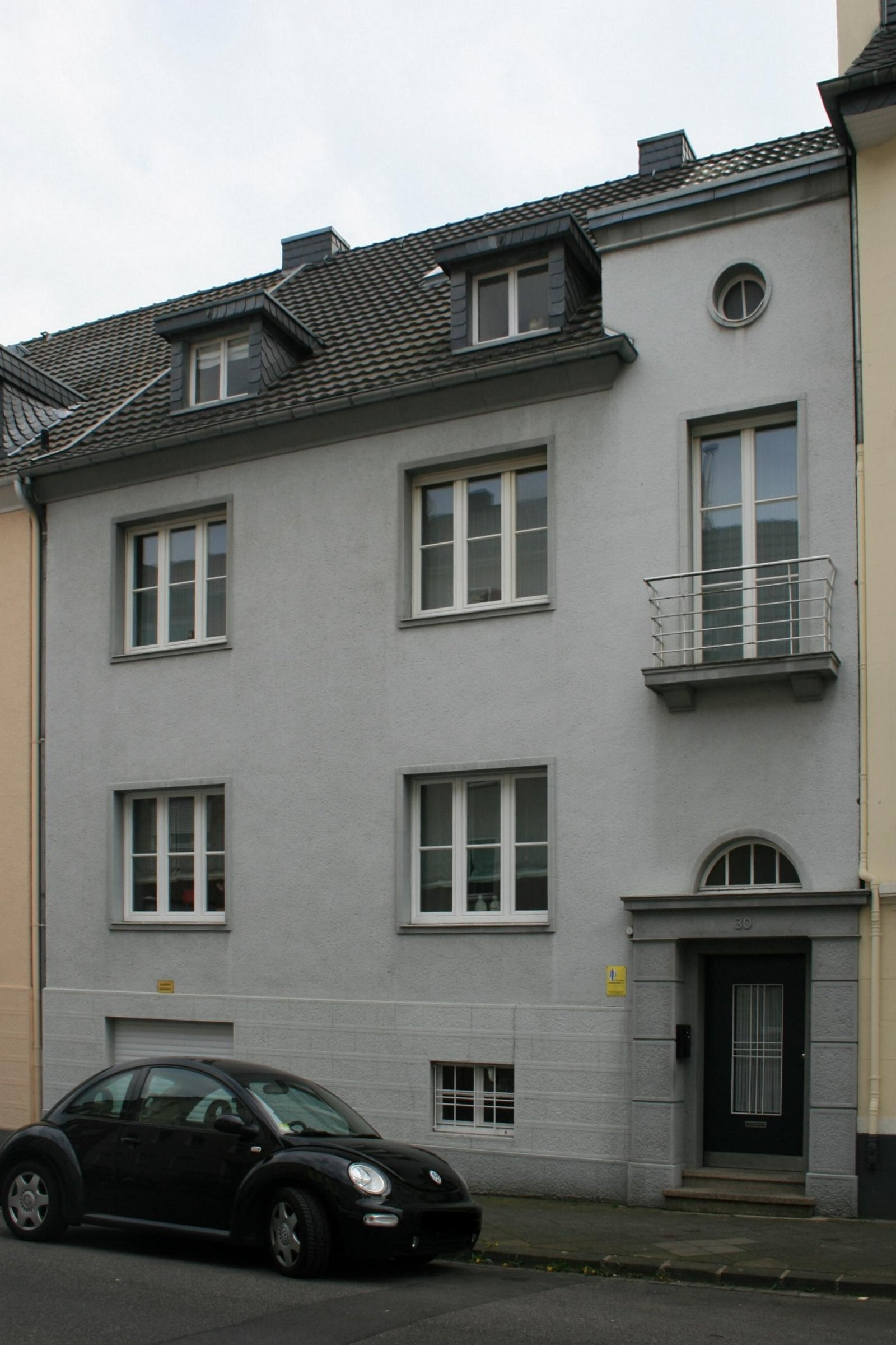 Cultural heritage monument No. H 083 in Mönchengladbach